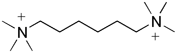 chemical structure of hexamethonium